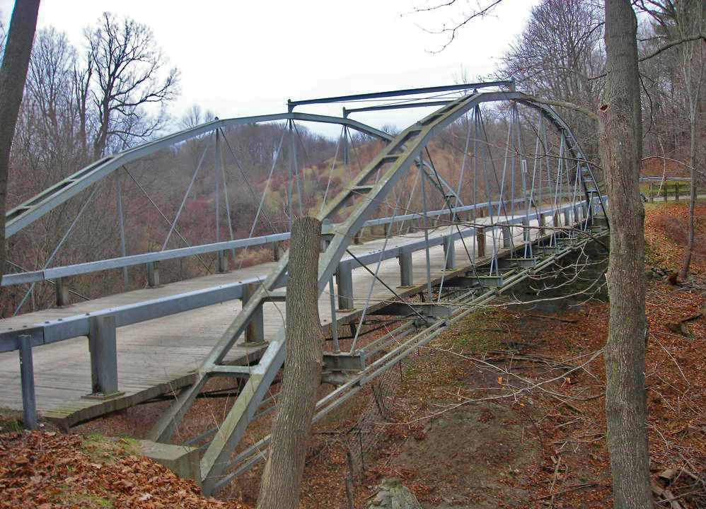 Whipple Cast and Wrought Iron Bowstring Truss Bridge at Normanskill Farm - Albany, New York